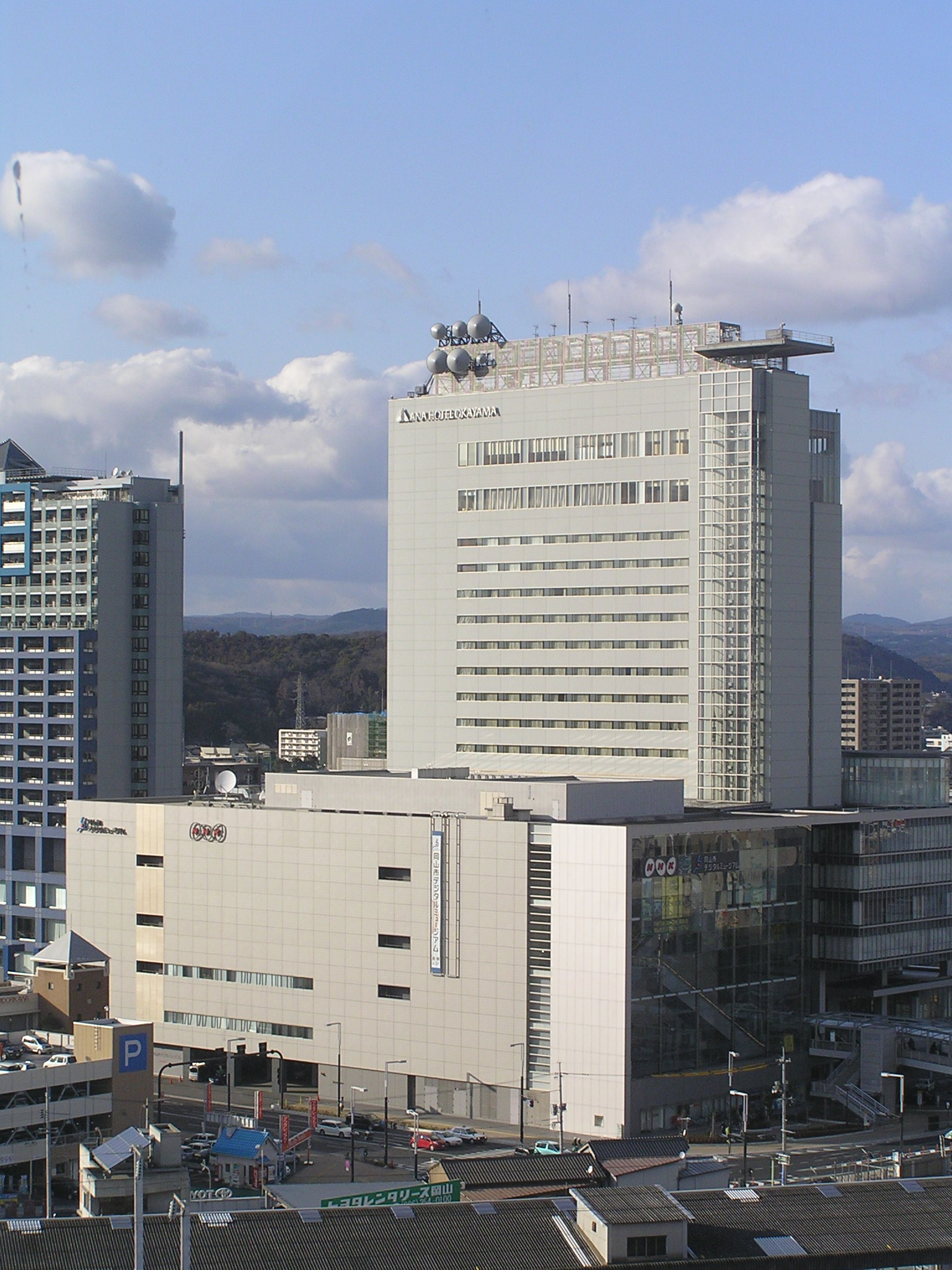 Panorama of Lit City Bldg.